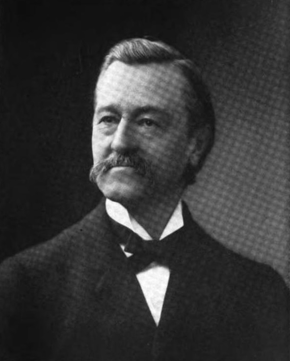 Hosea Washington Parker, New Hampshire Congressman